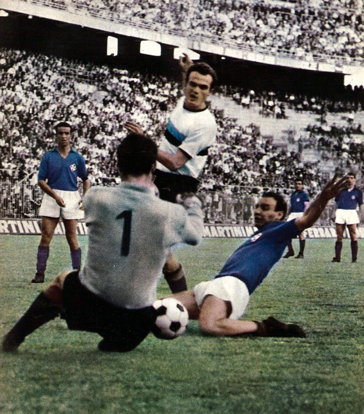 Milan, San Siro. Inter Milan's forward Alessandro "Sandro" Mazzola in action versus A.C. Fiorentina's defense in the 1960s.